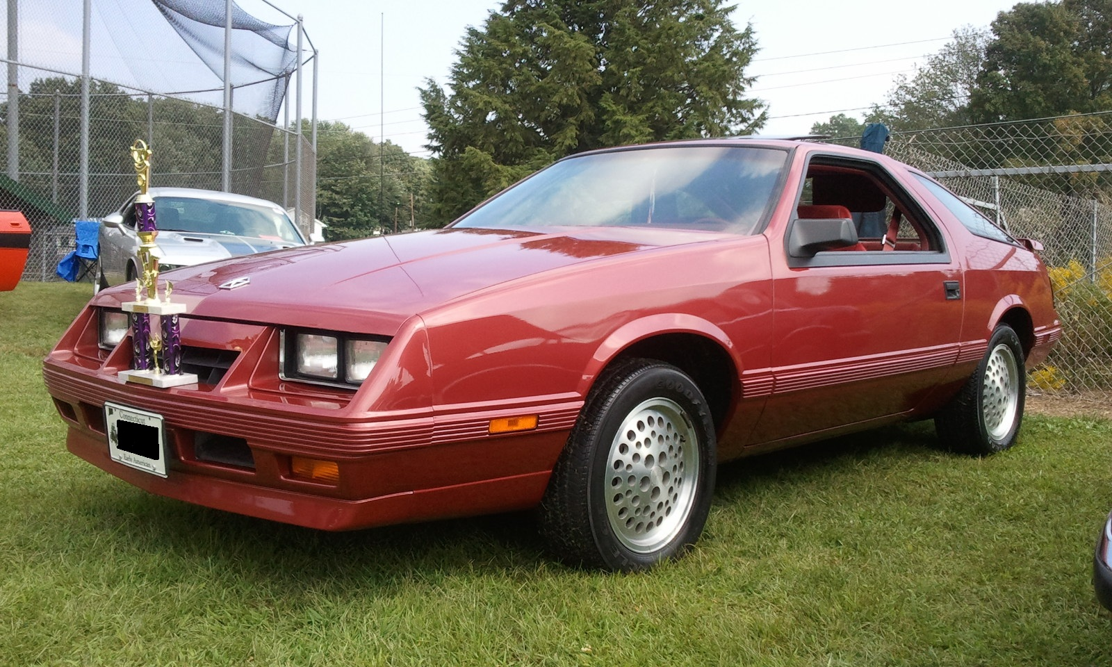 Restored 1985 Chrysler Laser XE. Garnet Pearl color.